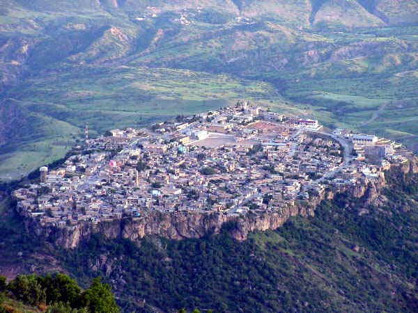 Amediye.